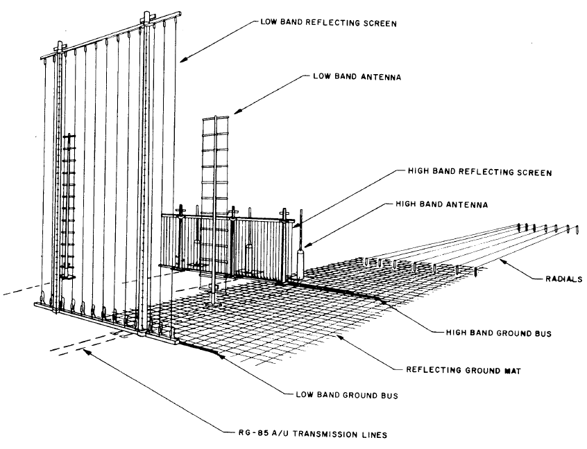 AN/FRD-10 - Figure 2-1 Major Components of Typical CDAA.